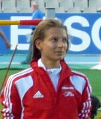 High jump final Barcelona 2010: Beatrice Lundmark